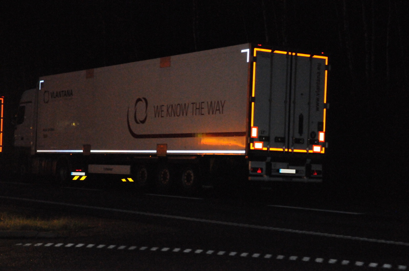 Contour markings with reflectors on a trailer.